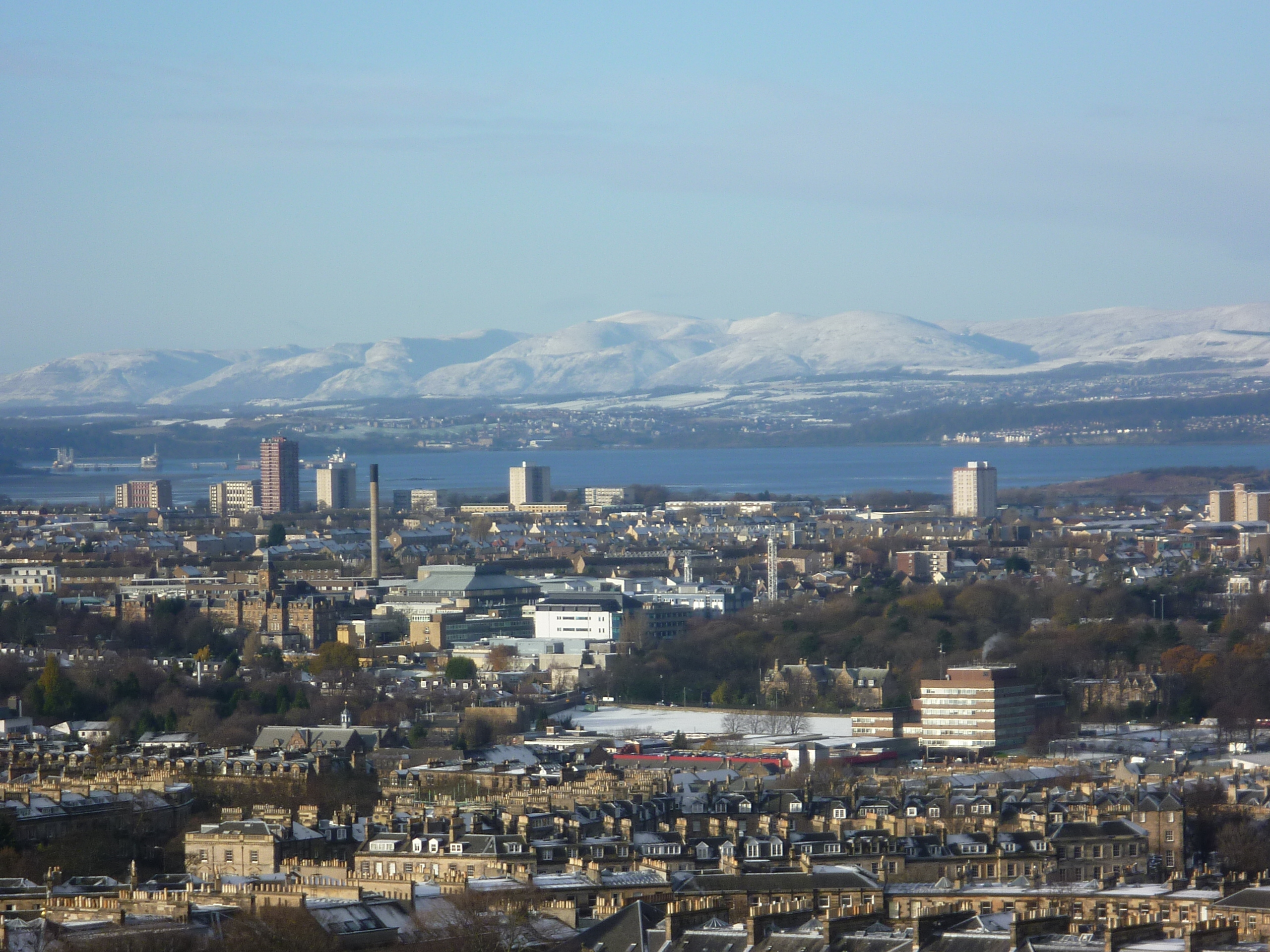 Firth of Forth from Edinburgh Castle